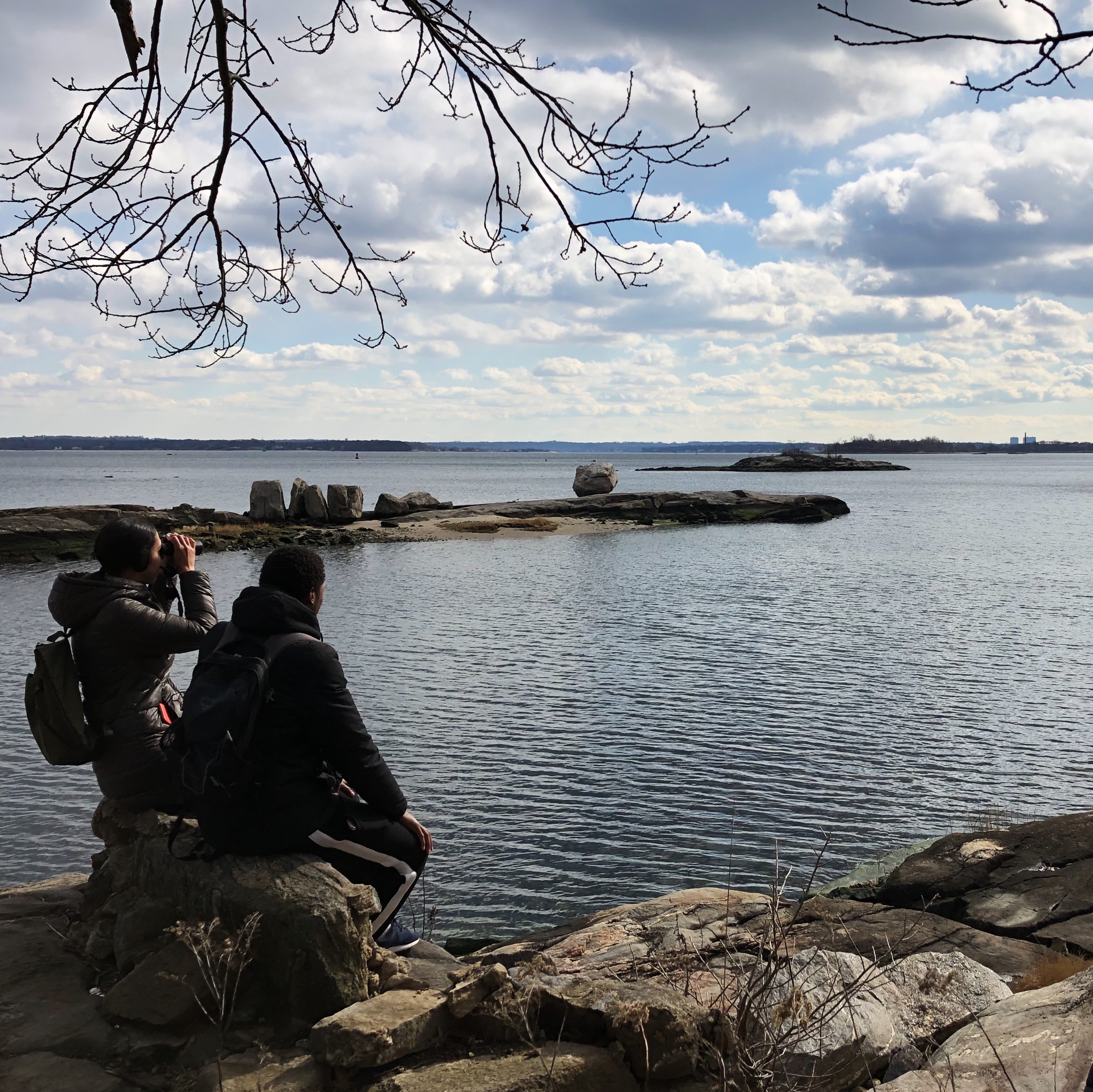 Two Bronx residents watch birds on Hunter’s Island in Pelham Bay Park.